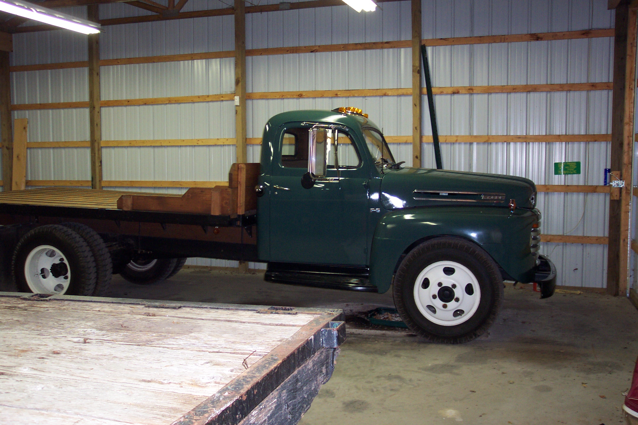 Picture of a 1950 Ford F6 2-ton truck. It has a 254-cubic-inch inline six cylinder engine. Photo taken in 2000.